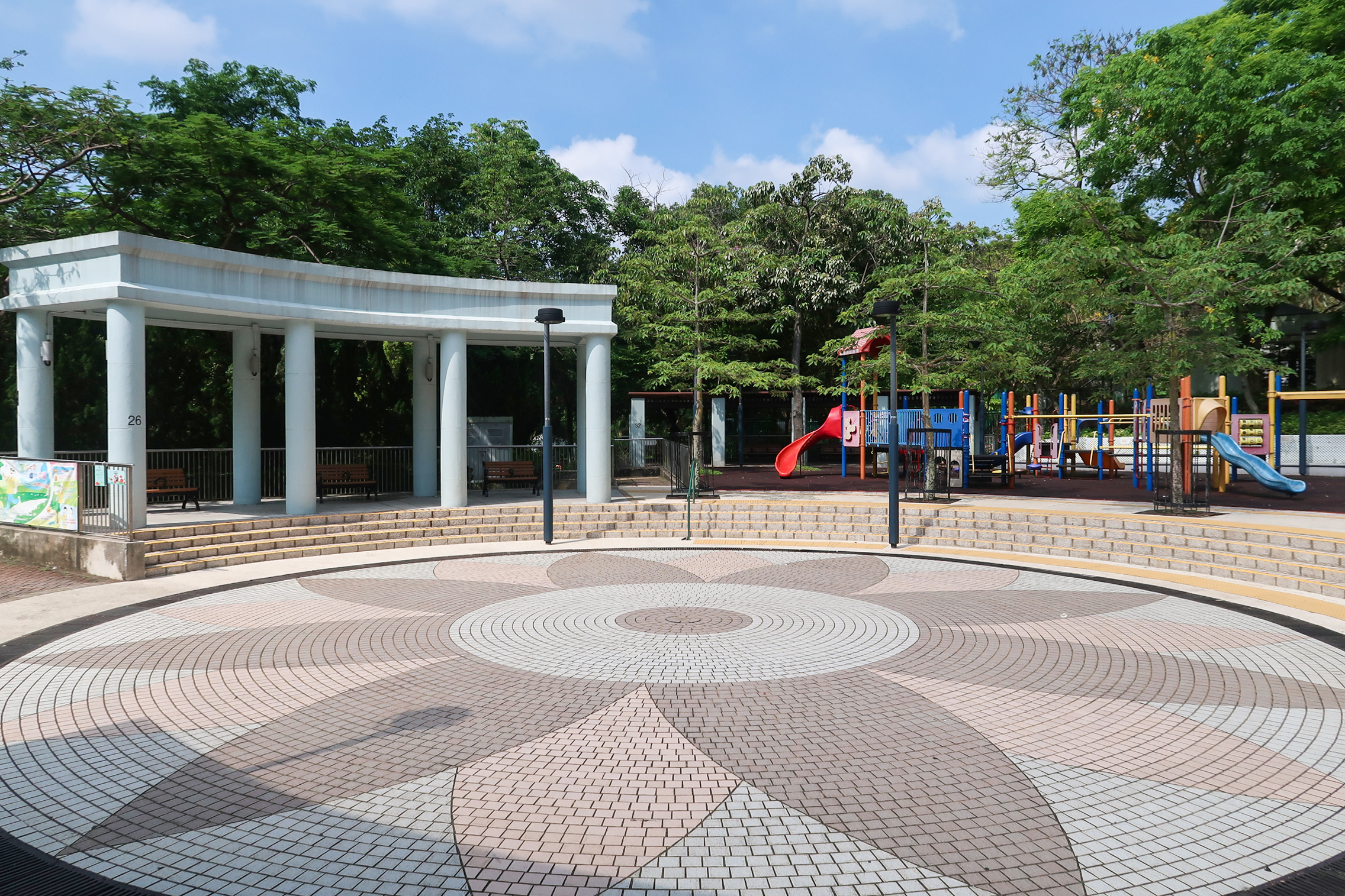 Shing Mun Valley Park